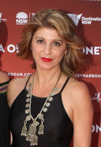 Kelley Abbey at Handa Opera on Sydney Harbour, in March 2013